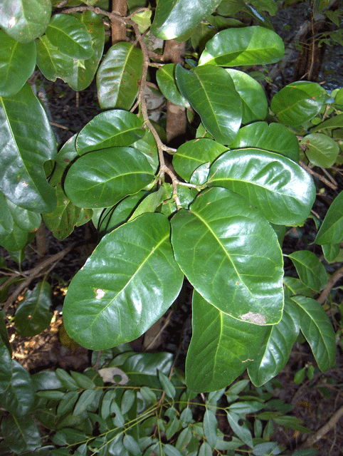 Found in Everglades National Park